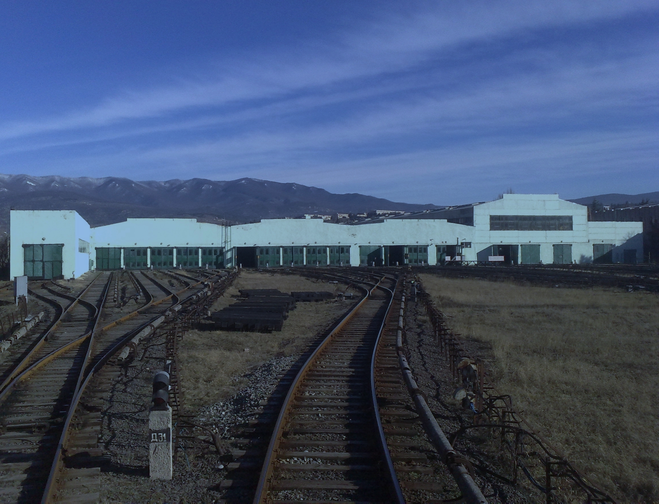 depot Gldani (Tbilisi subway)